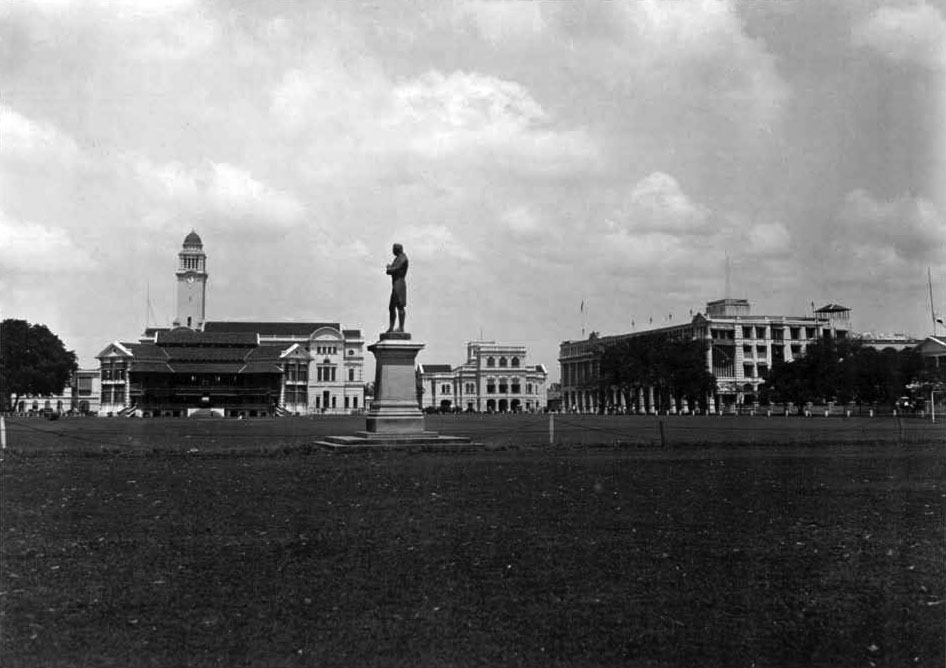 Photo of the Padang taken along a westerly direction: a statue of Sir Stamford Raffles stands in the foreground; in the background from left to right: Singapore Cricket Club, Town Hall, Supreme Court, and Grand Hotel de l'Europe